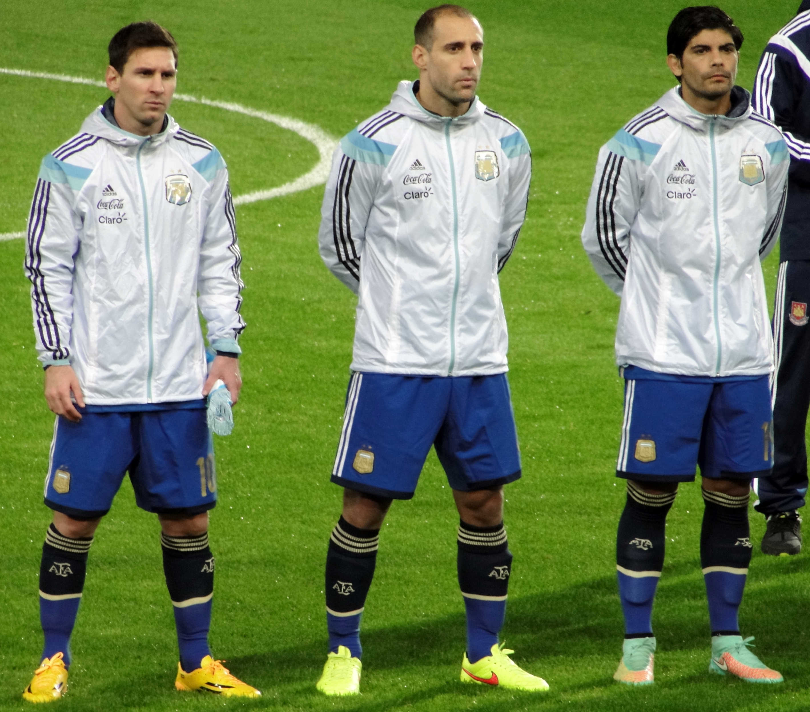 Lional Messi, Pablo Zabaleta, Ever Banega with Argentina at the Boleyn Ground before a match against Croatia.